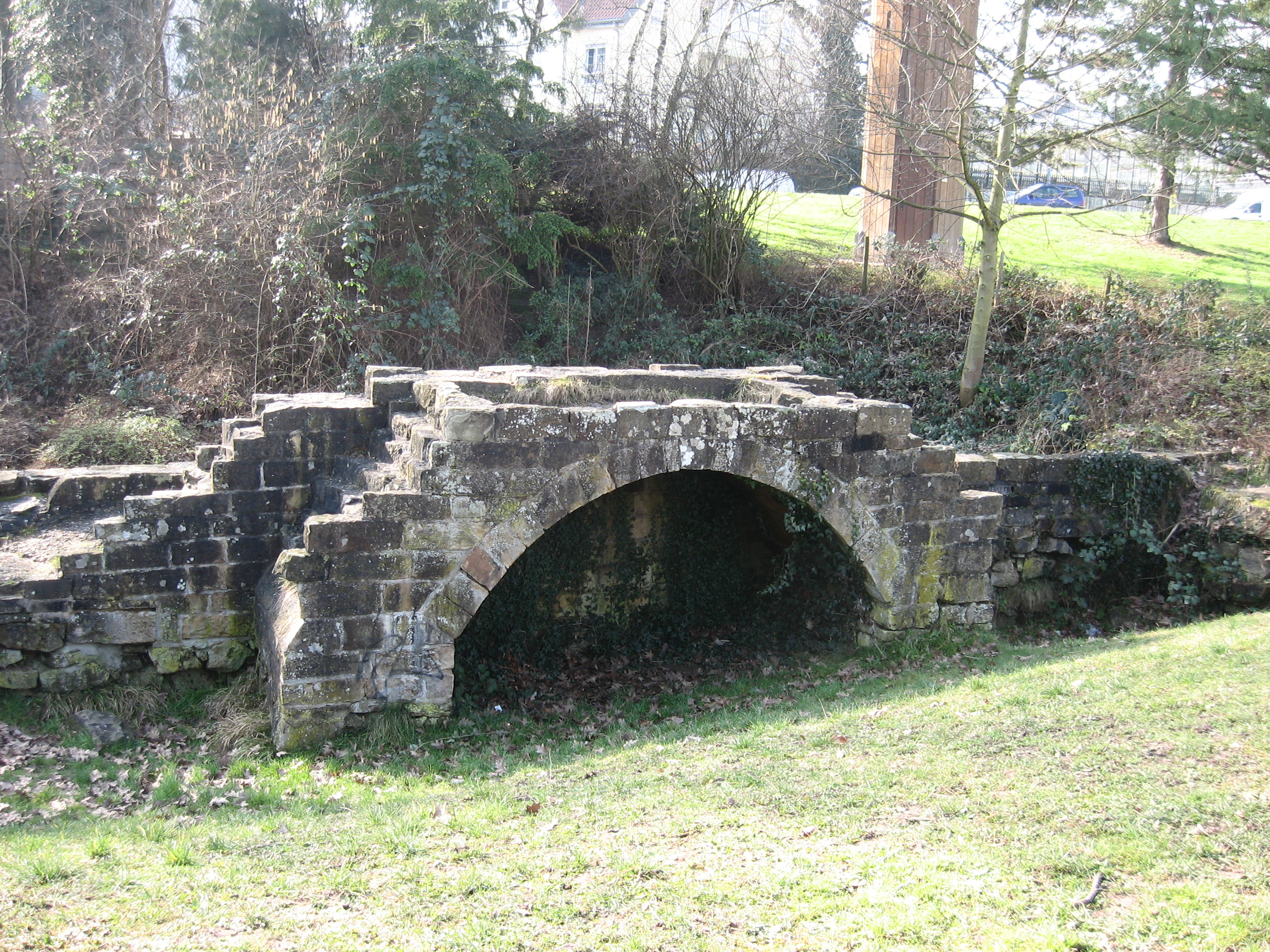 Reste einer Bastion der Festung Schorndorf (Württ.) remains of a bastion from the fortification in Schorndorf, Germany